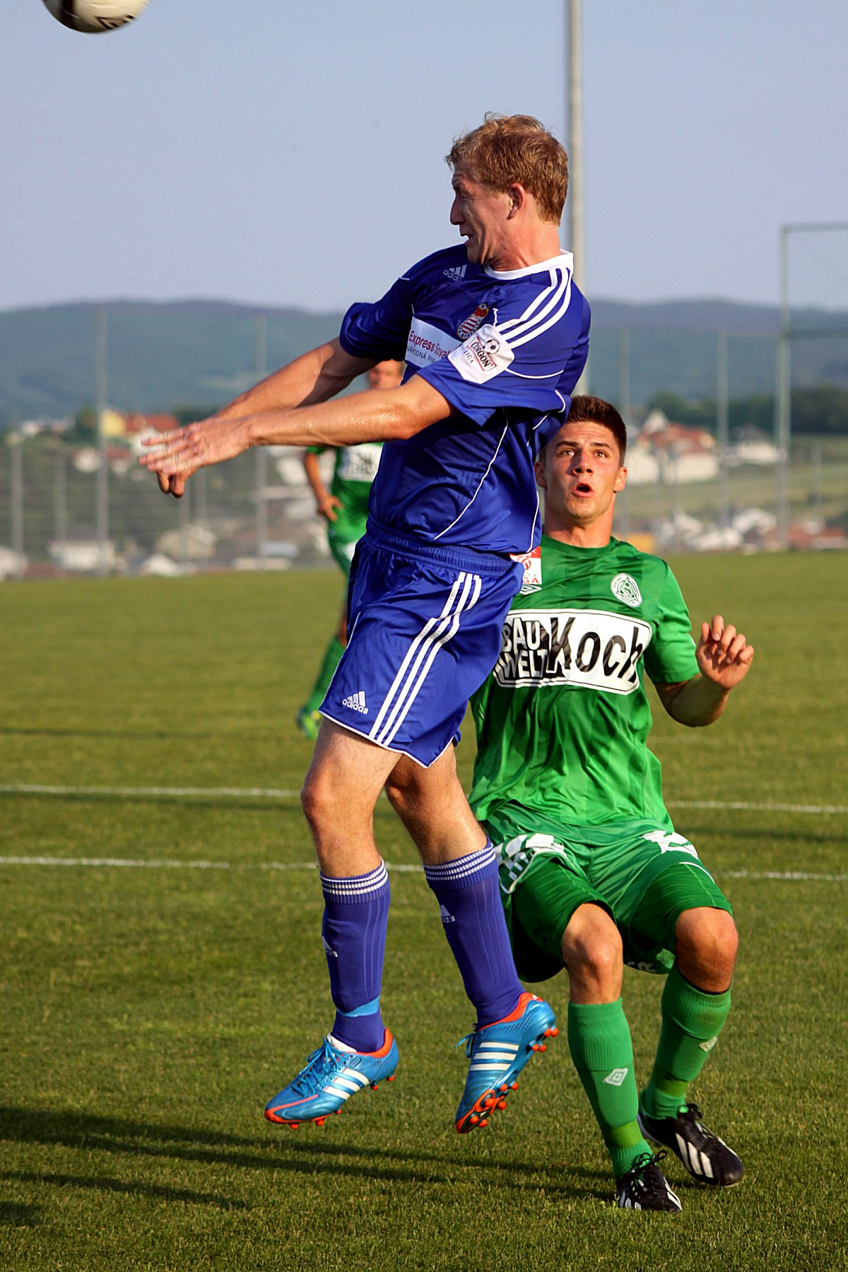 Friendly match SV Mattersburg vs FK Dukla Banská Bystrica (2:2) at 2013-06-21 in Mattersburg. – The photo shows Tomáš Hučko (FK Dukla Banská Bystrica).